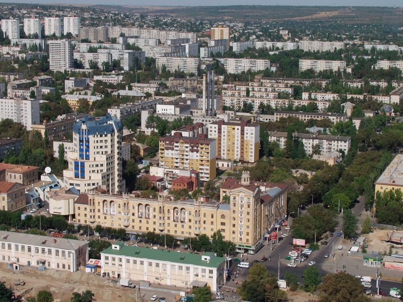 Voroshilovskiy district of Volgograd.